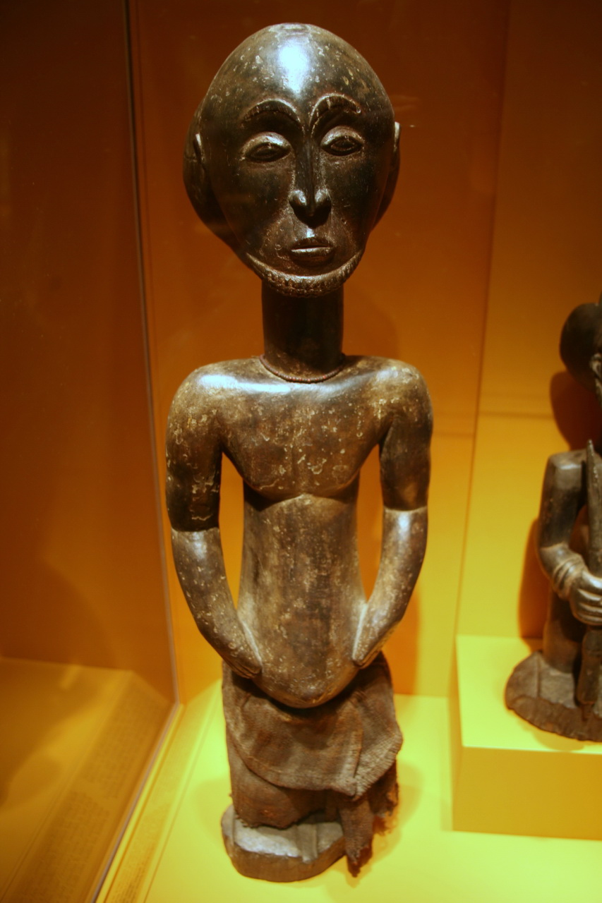 Male figure, Hemba peoples, Niembo chiefdom, Democratic Republic of the Congo, Late 19th to early 20th century, Wood, plant fiber, glass beads Among the Hemba peoples, carved wooden figures represent male ancestors who were venerated and linked to ownership of the land and to clan and lineage authority. They convey notions of ideal physical and moral qualities. Although these are said to depict particular ancestors, the figures are portrayed with generalized traits rather than individual, distinguishing characteristics. Both figures have well-balanced forms, refined and serene facial features and markers of gender, status and achievement. Each has an elaborate cruciform coiffure and a carefully rendered beard. One carries a warrior's lance and an adze and wears a narrow bracelet of authority. Both are meant to recall the political and military roles filled in the past by great men. (National Museum of African Art)